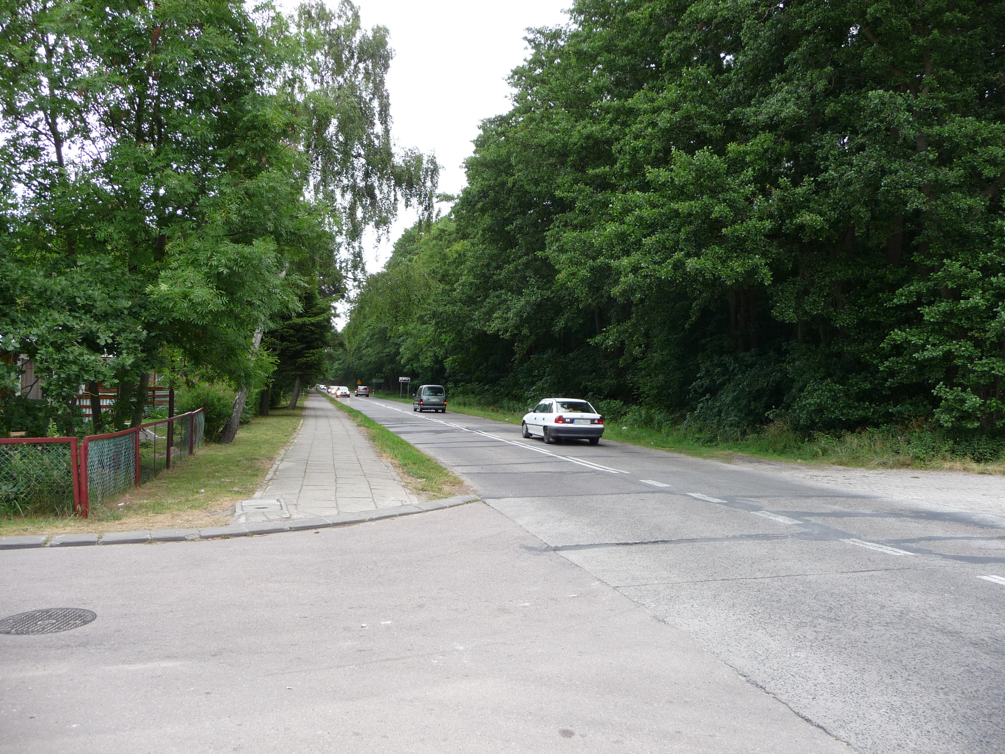 Voivodeship Road no. 102 in Poland. Picture was taken in Miedzywodzie. Crossing with Westerplatte street.